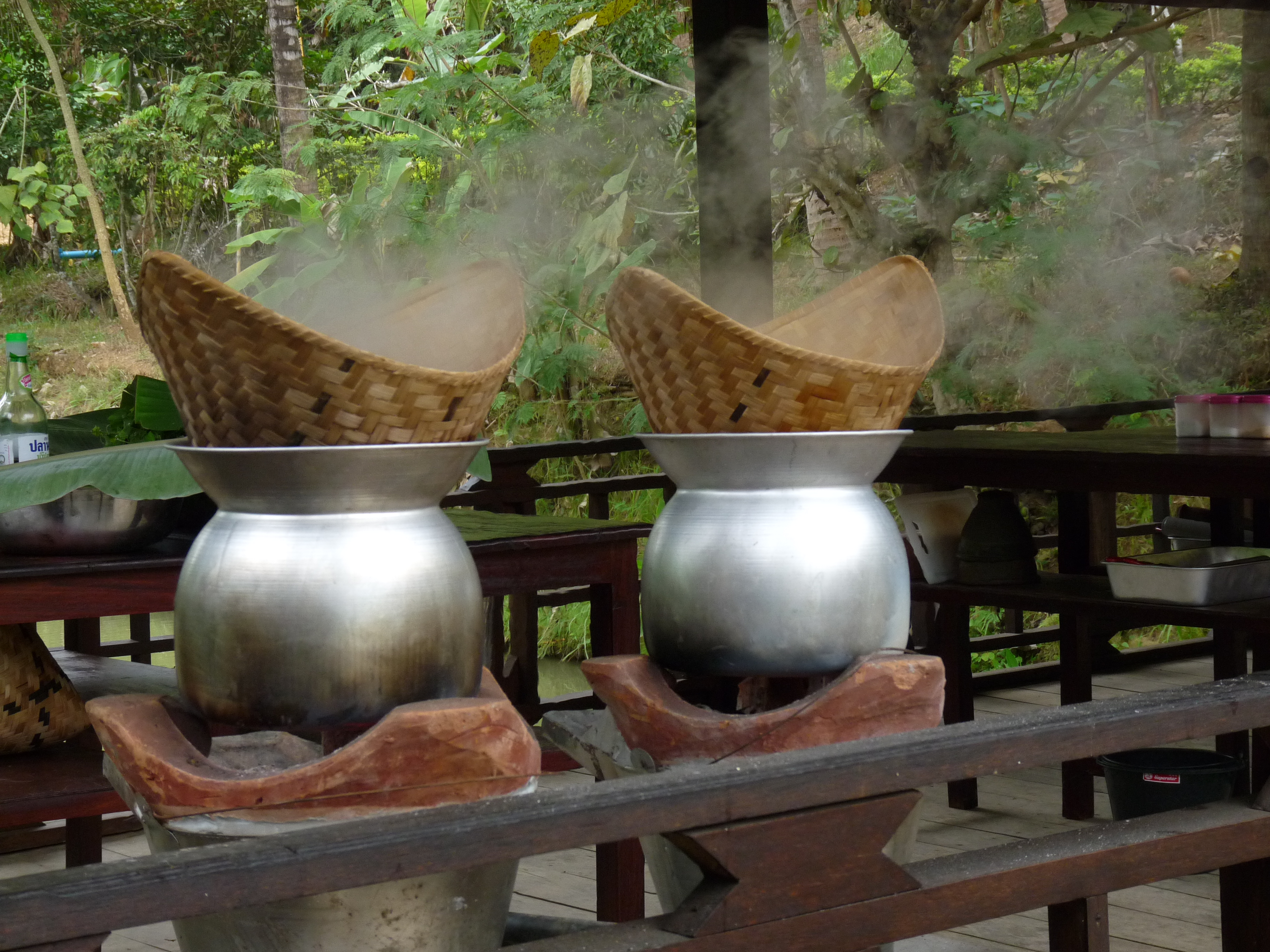 Lao sticky rice being steamed in traditional baskets, Luang Prabang.